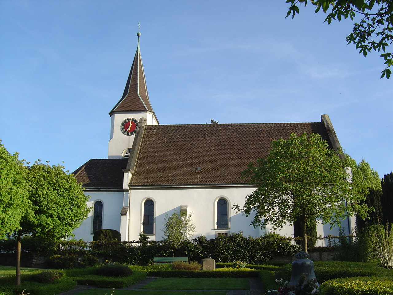 Old Catholic church St. Leodegar in Möhlin